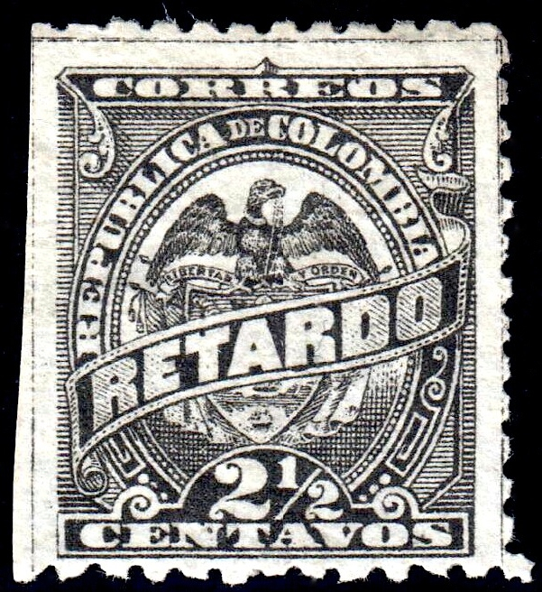 Colombia 1886 2½c black on lilac, unused. Late fee stamp.